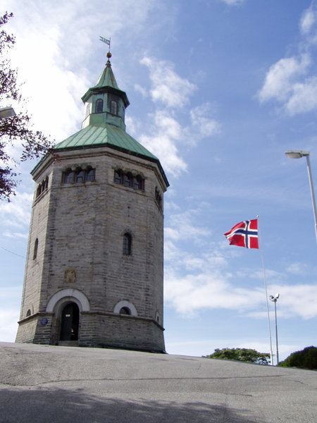 Valberg Tower in Stavanger, Norway. Own photography.